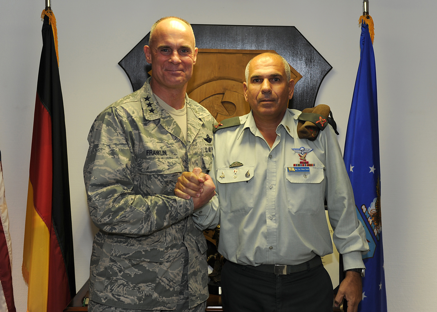 Air Force Lt. Gen. Craig Franklin, U.S. Third Air Force Commander, the senior AC12 US commander in Israel for the exercise, and Israel Defense Forces Brig Gen Nitzan Nuriel, the IDF's lead AC12 exercise.